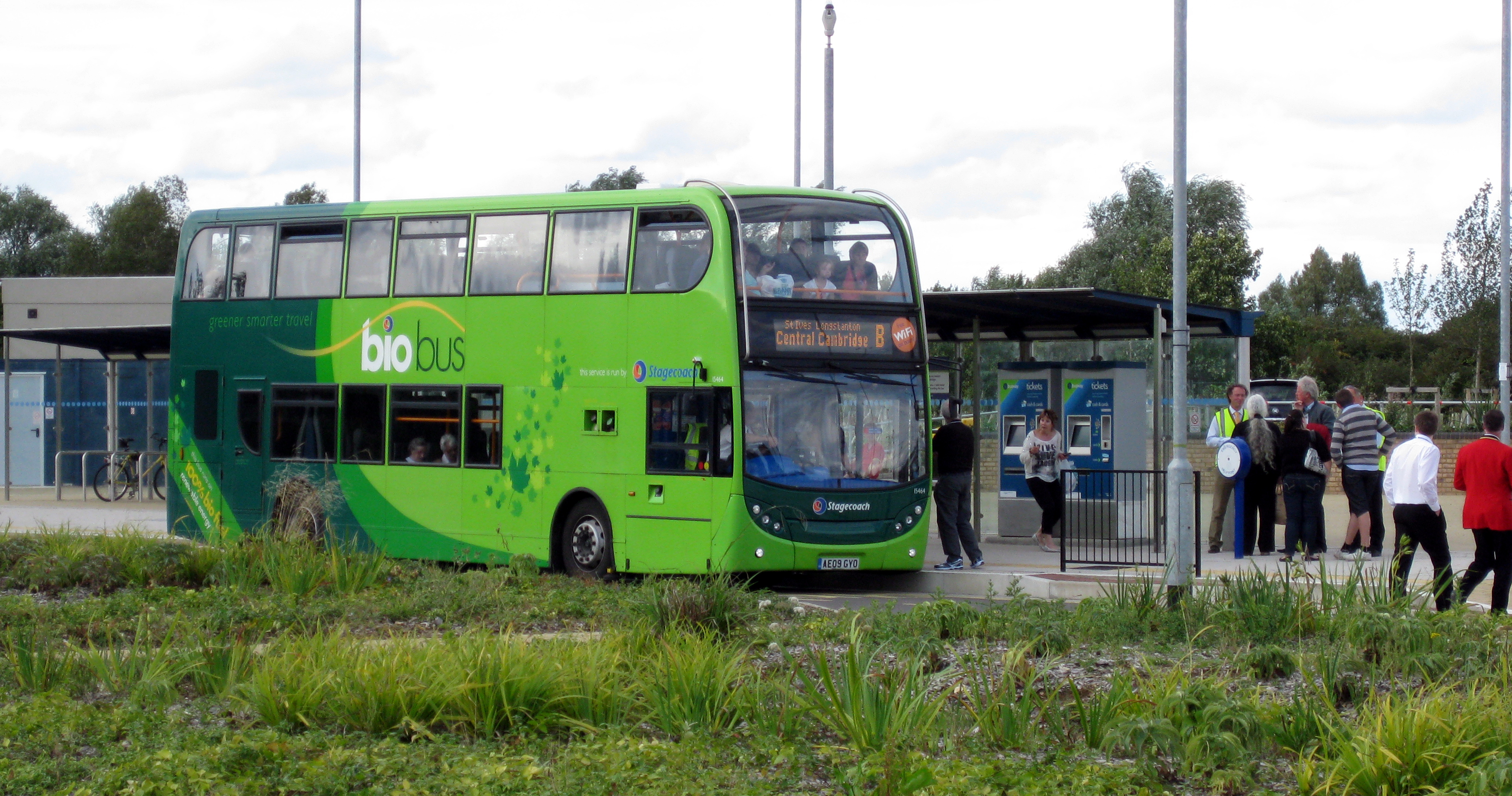 Stagecoach in Huntingdonshire bus 15464 (reg. AE09 GYO) operating Cambridgeshire Guided Busway route B on the first day of public services.